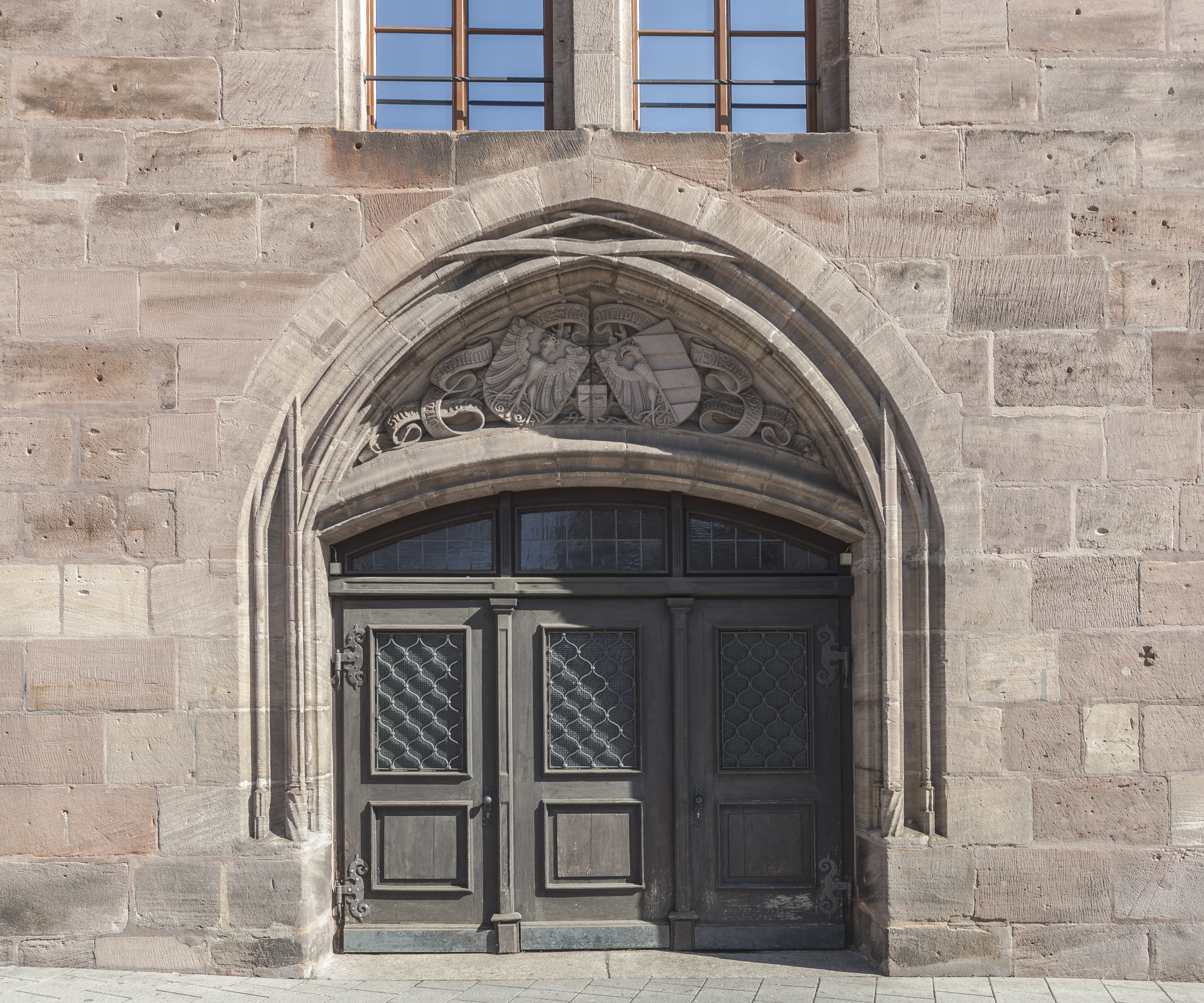 Mauthalle, Nuremberg, Germany